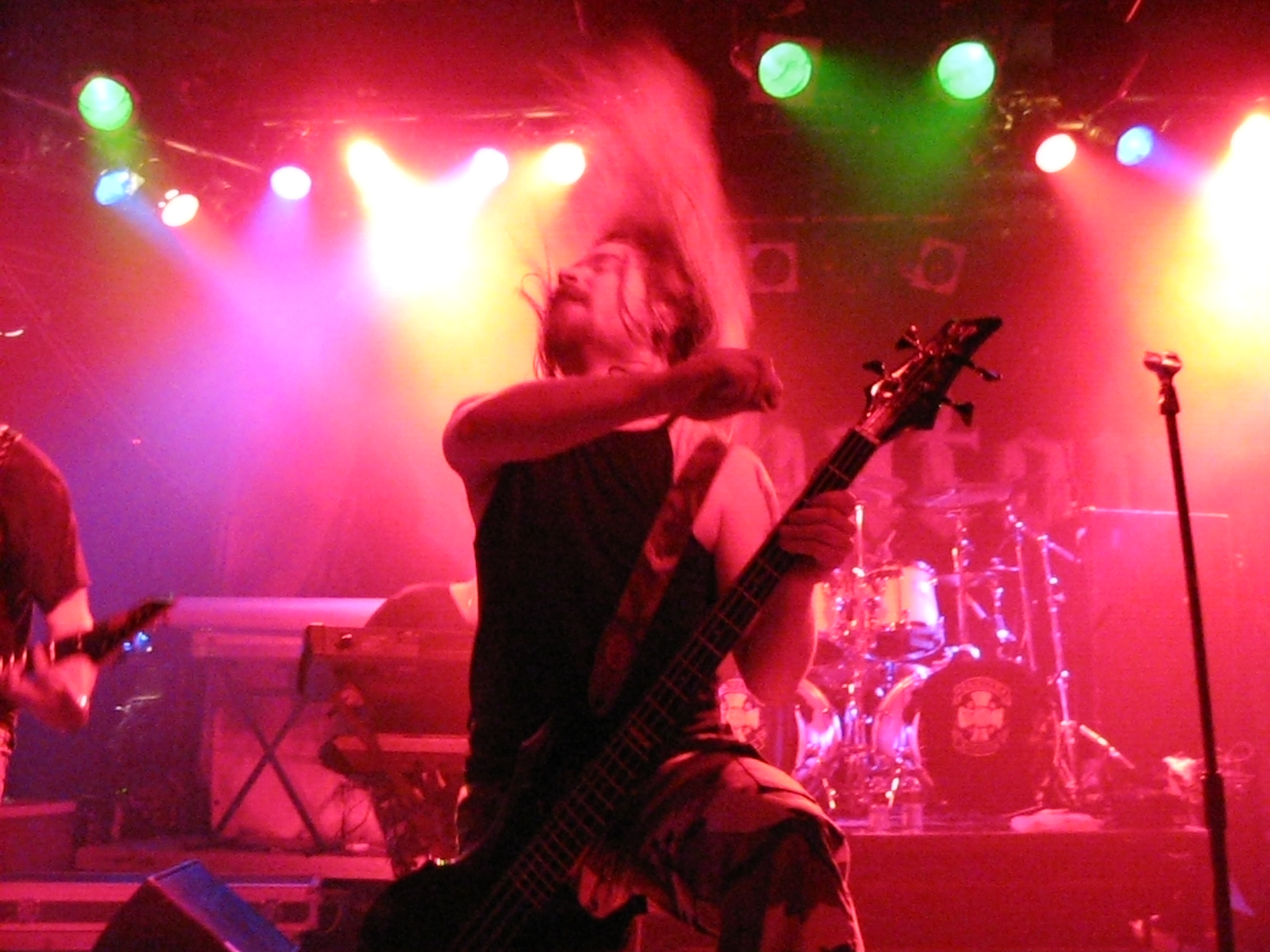 Par Sundstrom of Sabaton, January 21, 2007